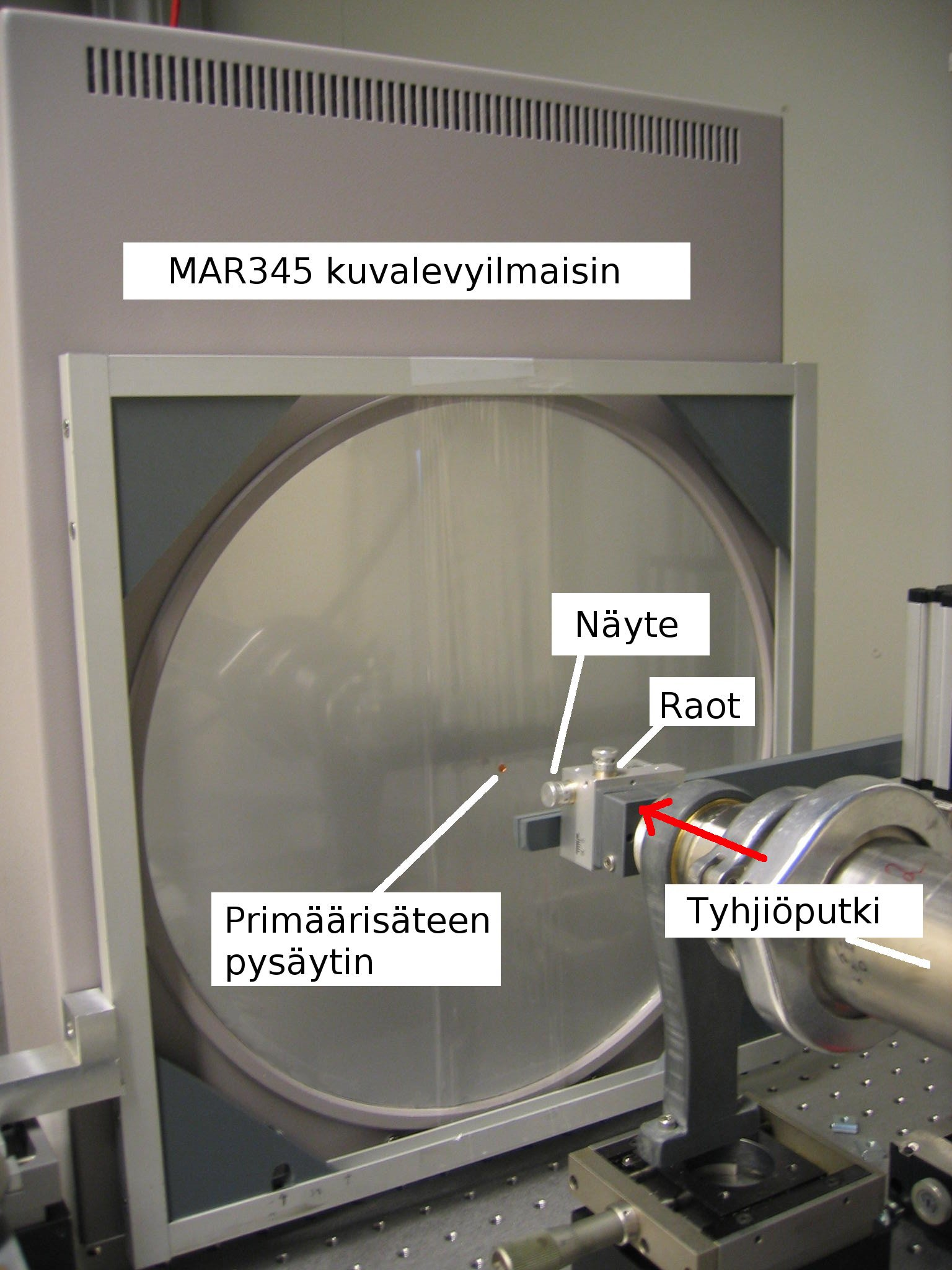 Wide-angle x-ray scattering apparatus, a 2D diffractometer at the Department of Physical Sciences, University of Helsinki, Finland. Finnish explanations